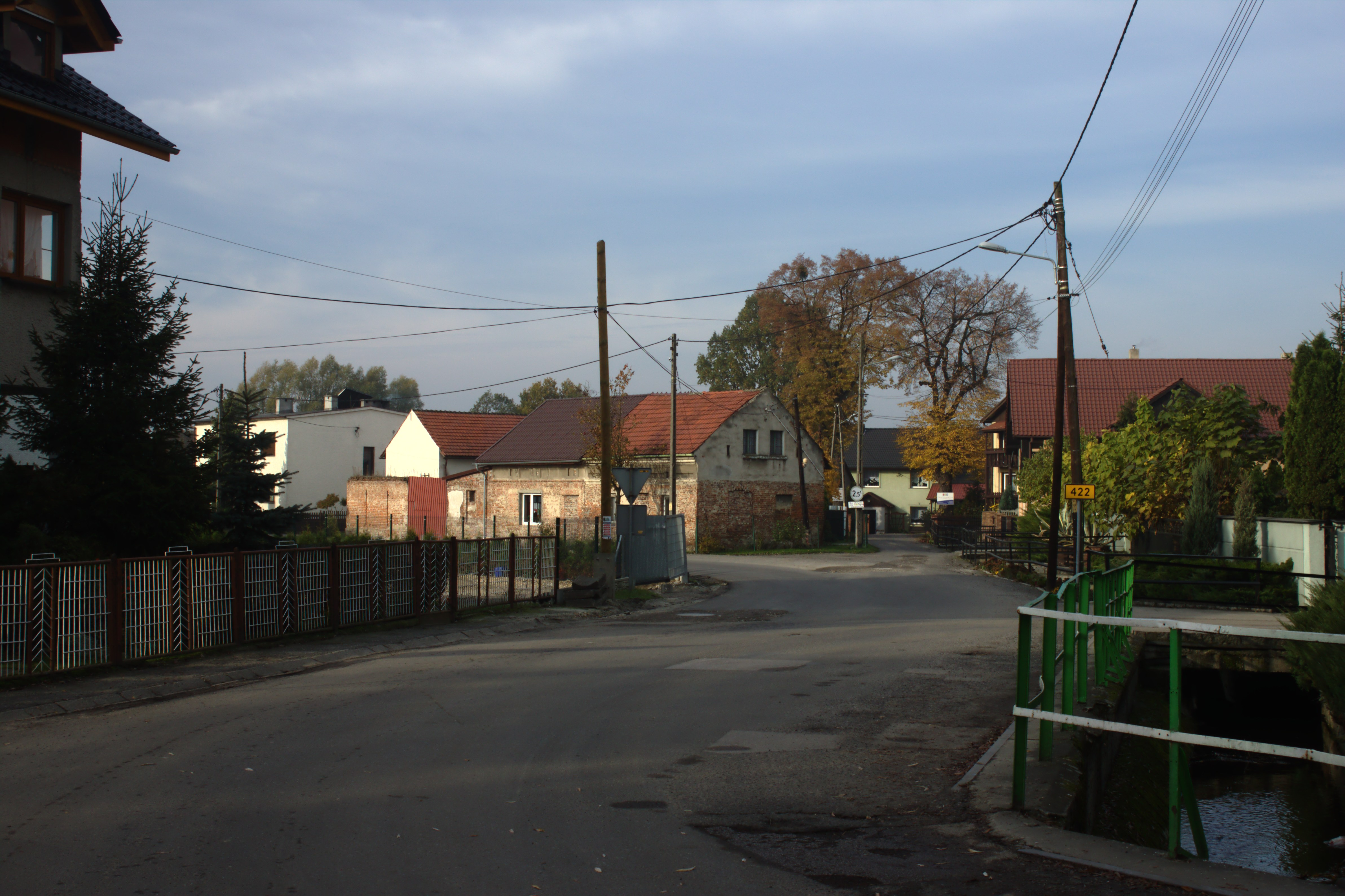 Buildings in Dziergowice, Poland